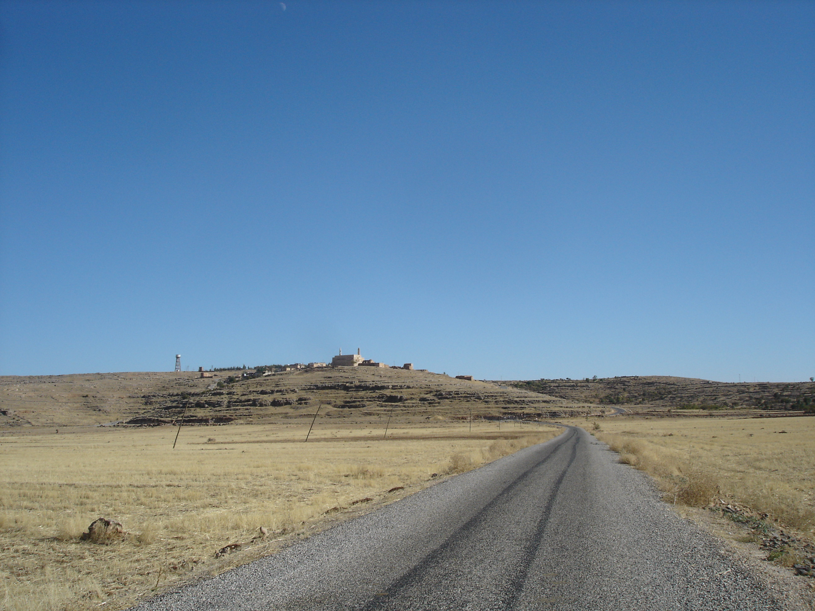 Keferze